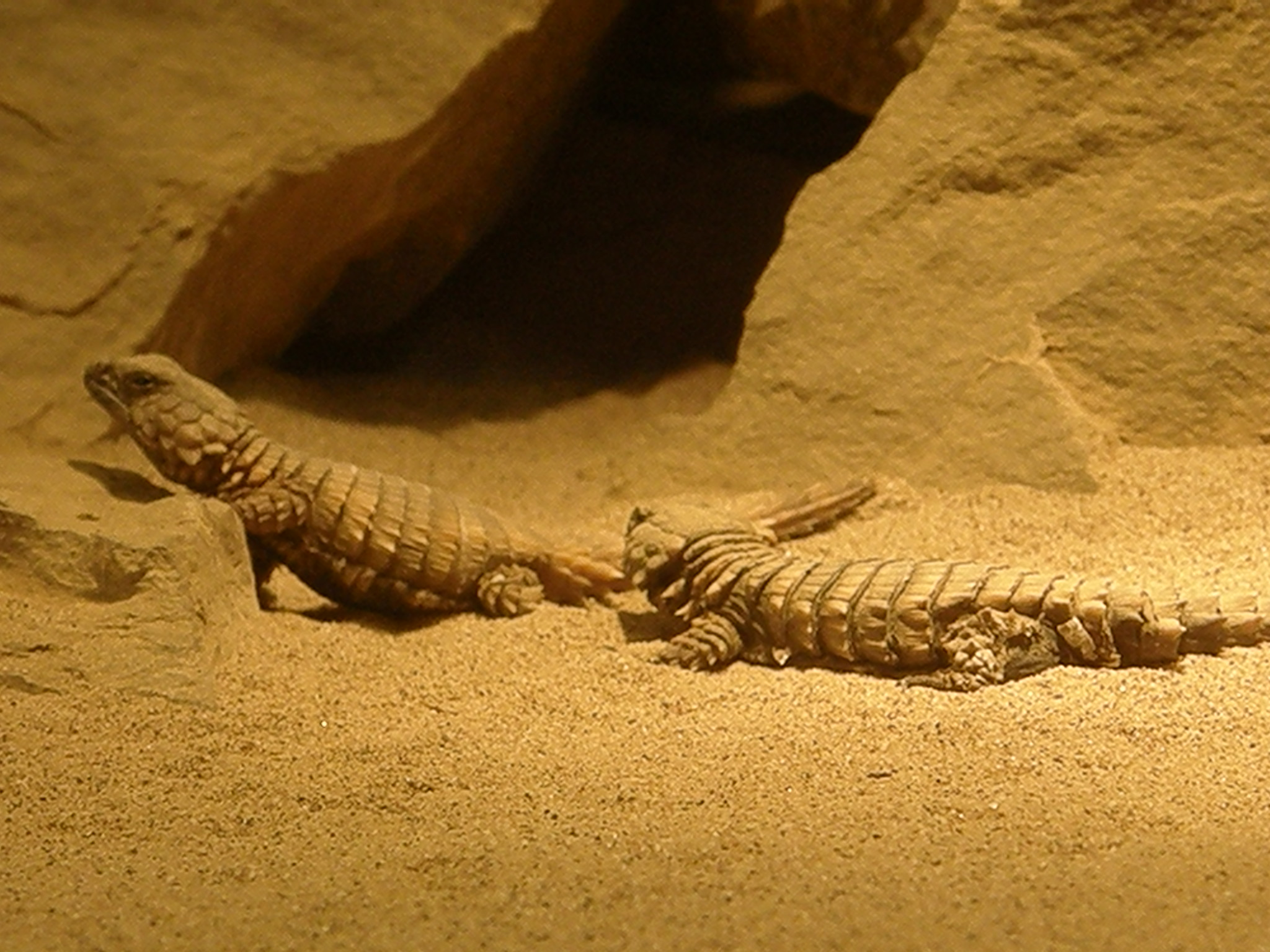 Armadillo Lizard - Cordylus cataphractus